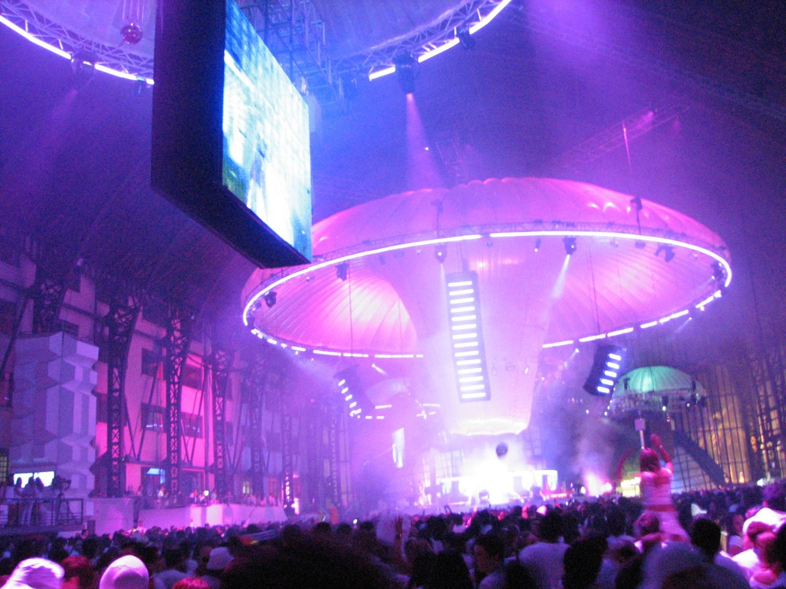 Sensation White 2008. Location unknown.